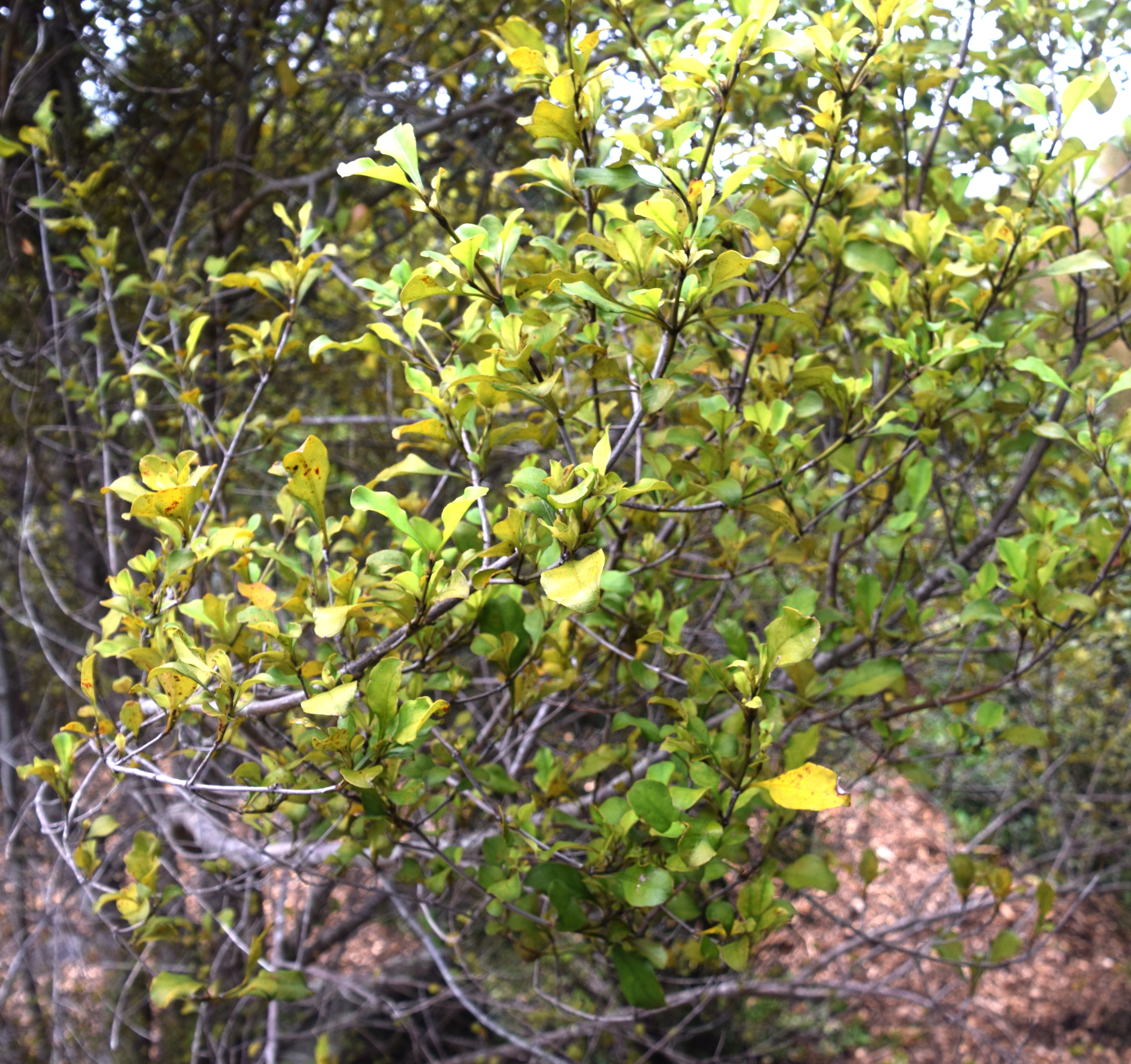 Coprosma arborea in Auckland Botanic Gardens, Manurewa, South Auckland, New Zealand